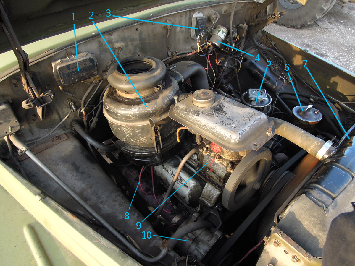 1 — voltage control box, 2 — air filter, 3 — ignition commutator, 4 — ignition coil, 5 — water filler, 6 — oil tank of steering booster, 7 — radiator, 8 — ignition wire, 9 — pneumatic compressor, 10 — generator